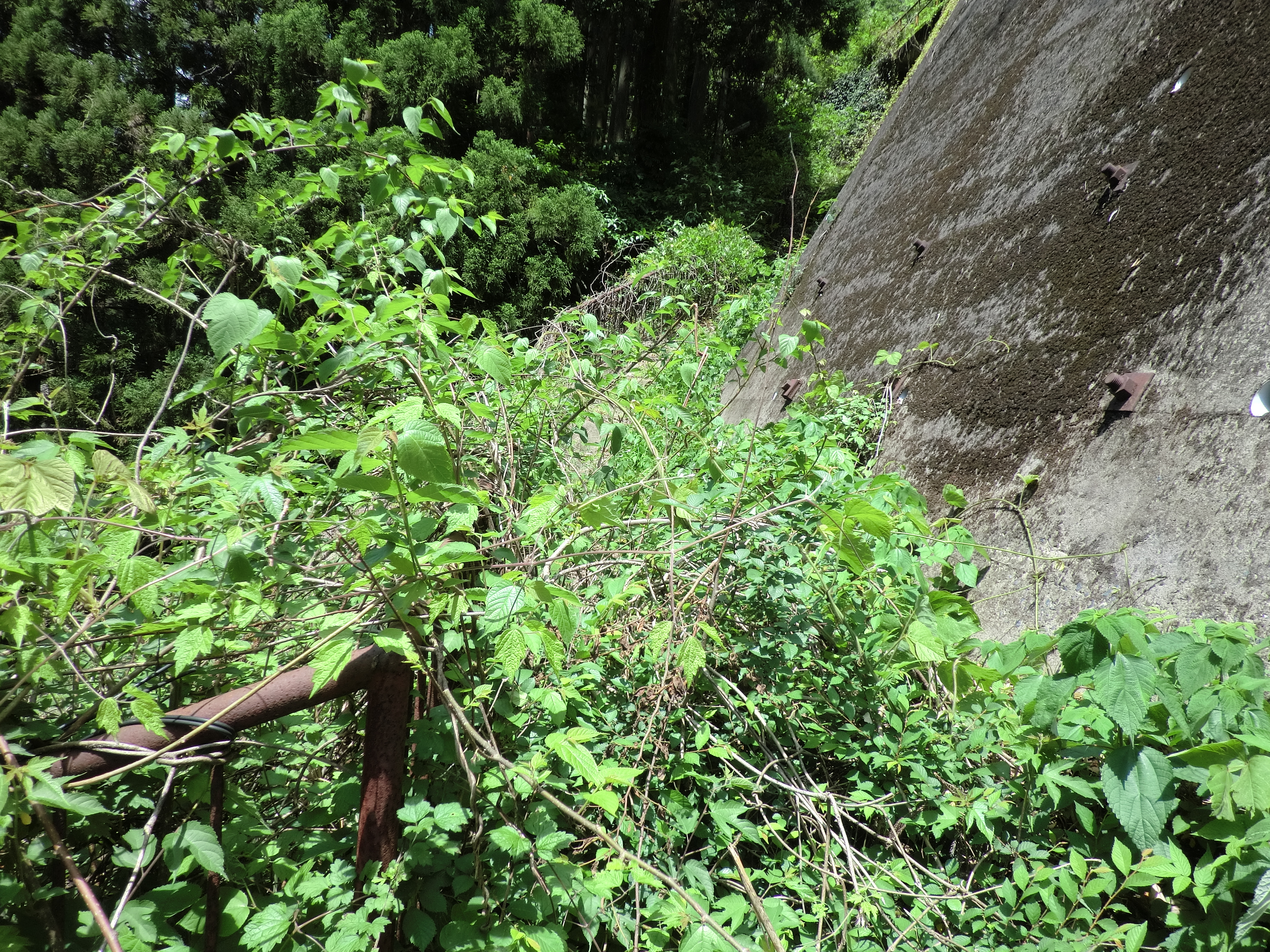 Path to Kagemachi station